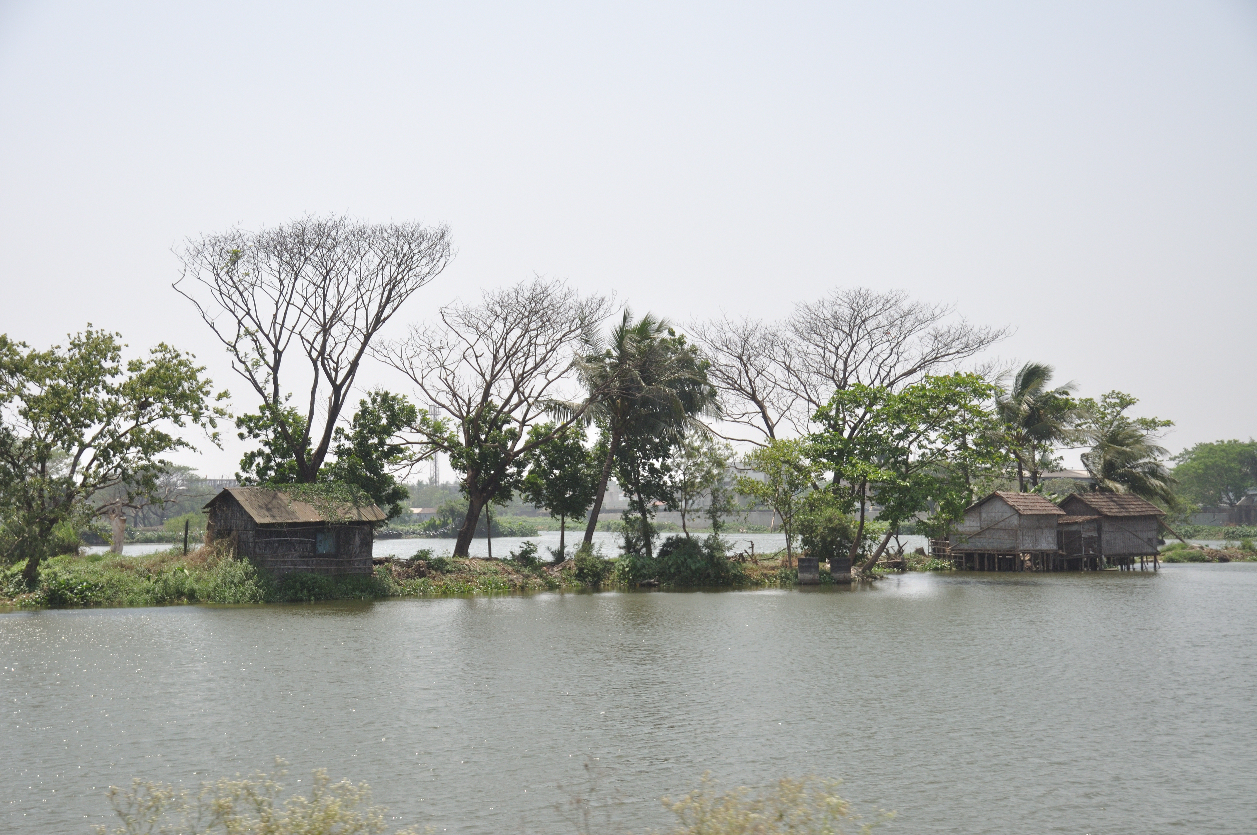 This photograph was taken in Kolkata, West Bengal.